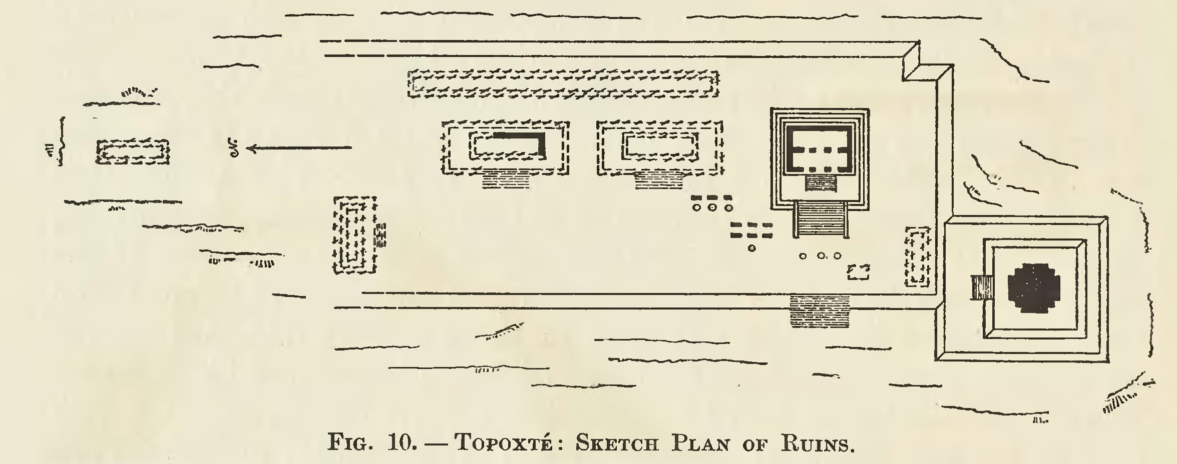 Illustration from Teoberto Maler's Explorations of the upper Usumatsintla and adjacent region published in 1908. Figure 10 from page 58. Topoxté: Sketch plan of the ruins.